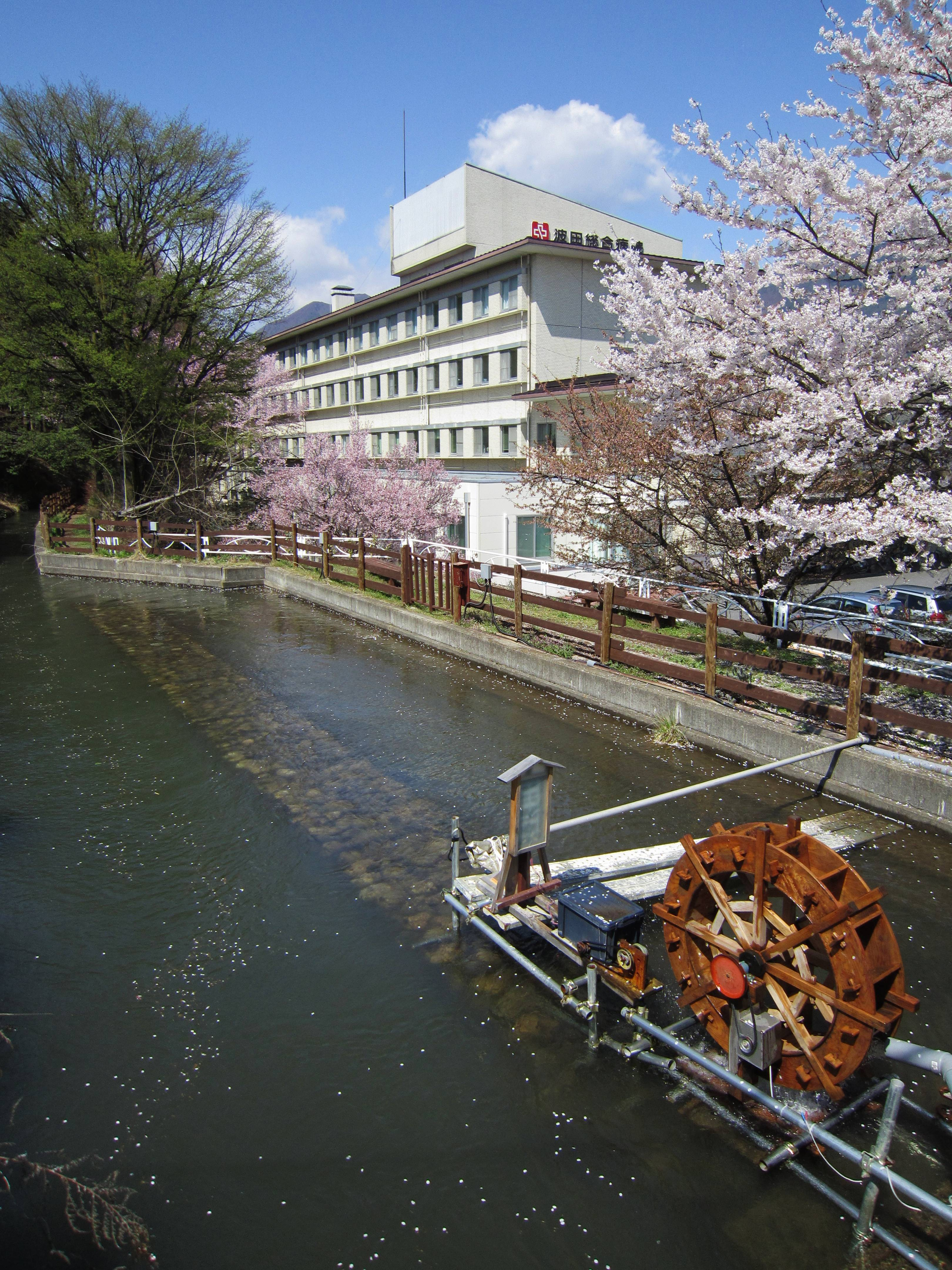 Hatasegi and Hata General Hospital.